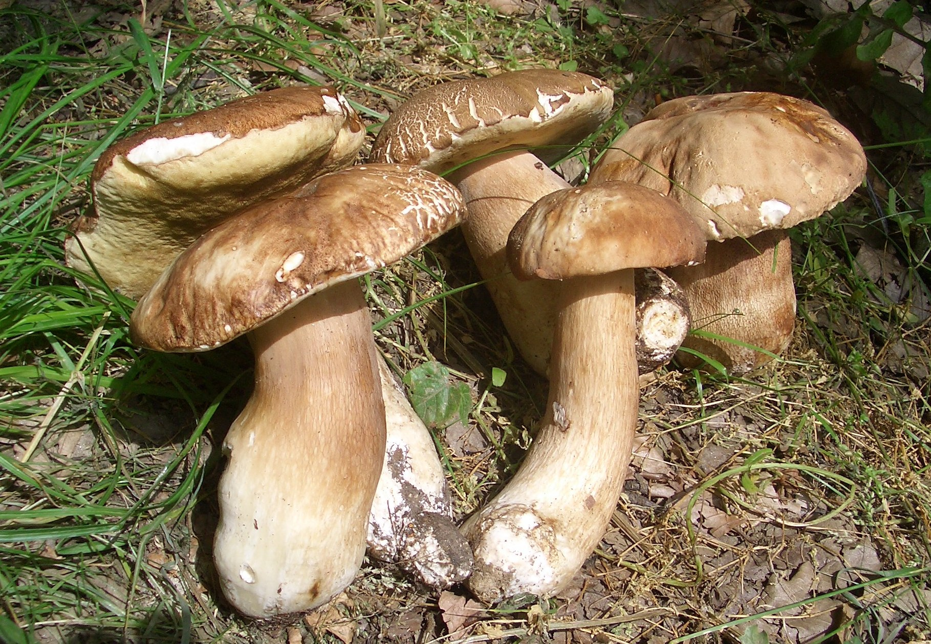 Boletus reticulatus of Šumadija, Serbia